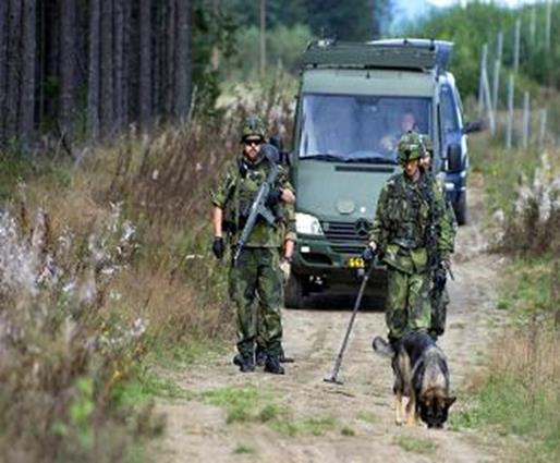 Primarily a Force Protection asset, Protection dogs provide commanders with a high profile visual deterrent that’s has the ability to detect, chase and hold an intruder.